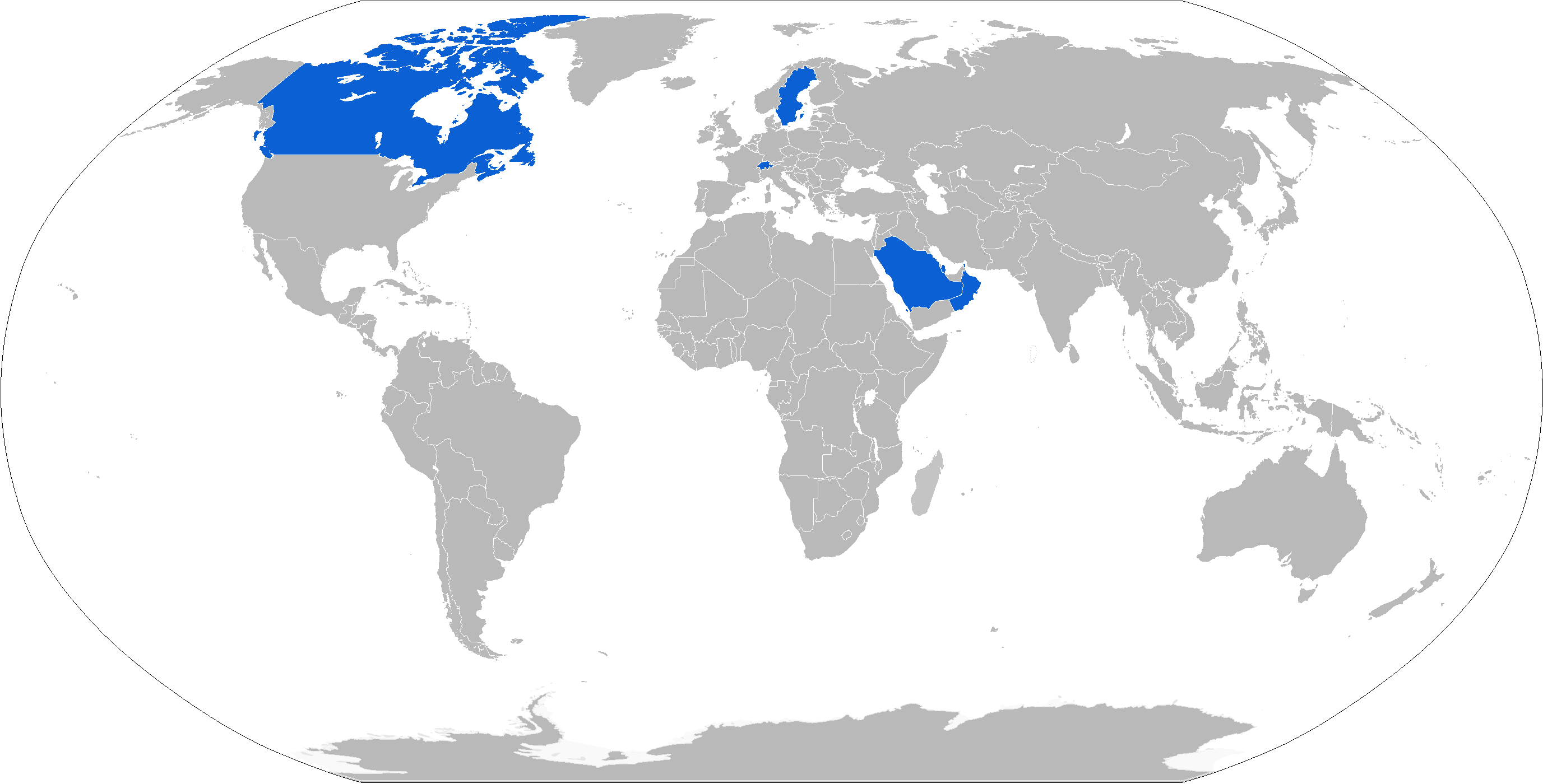 Map of Pirahna 2 operators in blue